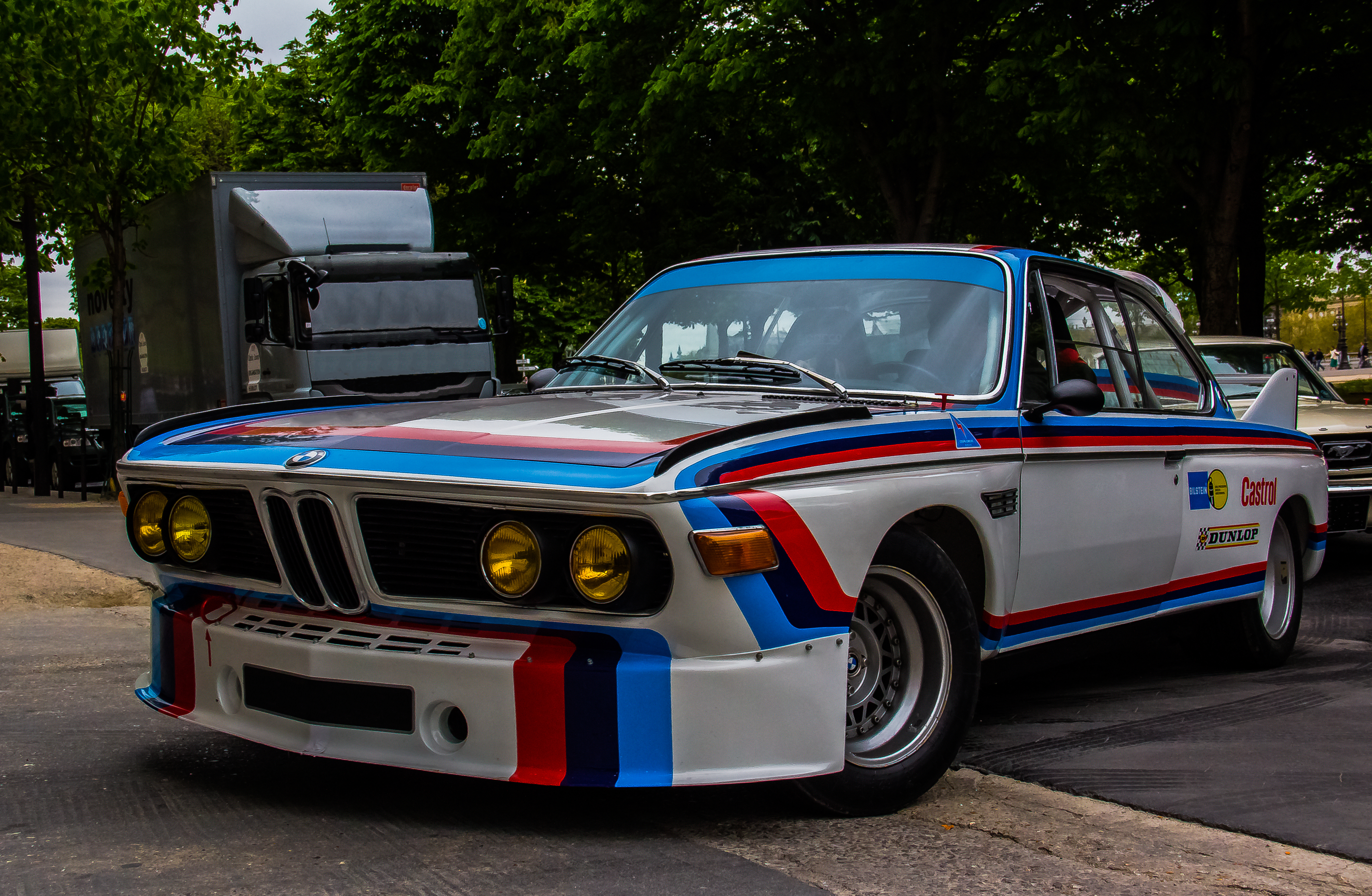 The 23rd edition of the Tour Auto Optic 2ooo, April 2014, Grand Palais, Paris.